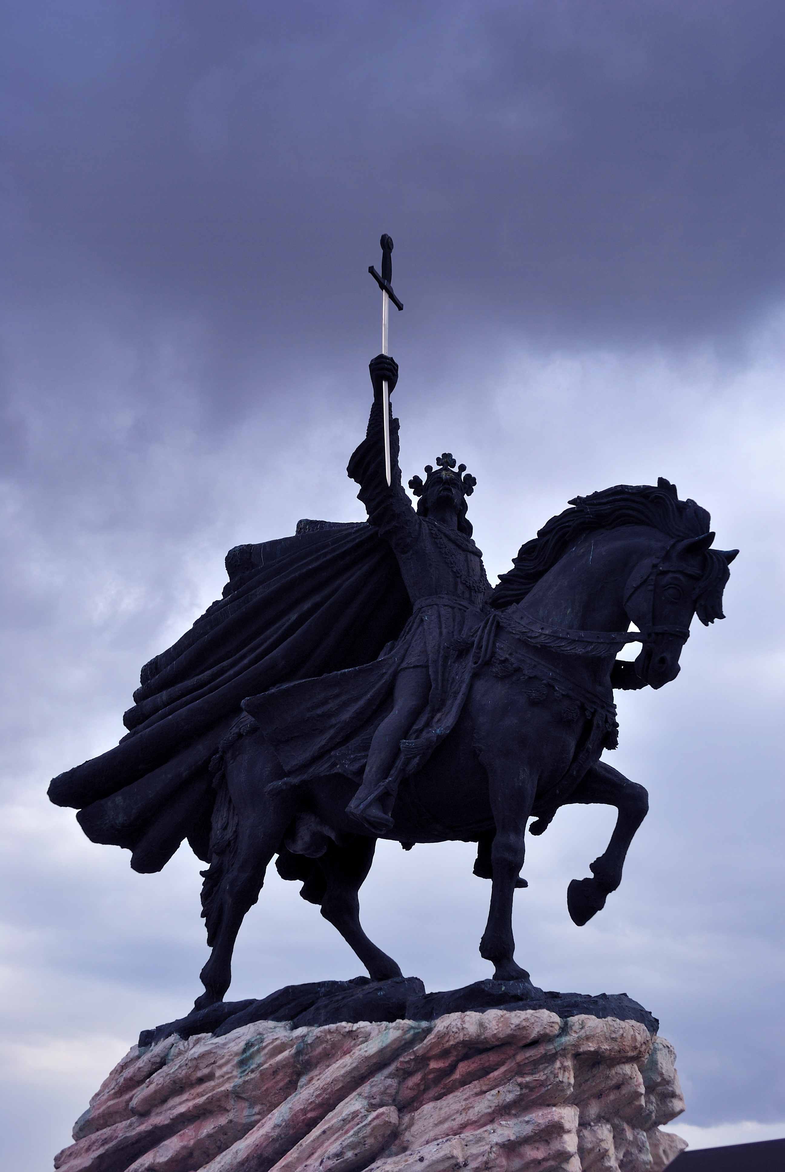 Statue of Alfonso VI of León in Toledo, Castile-La Mancha, Spain.